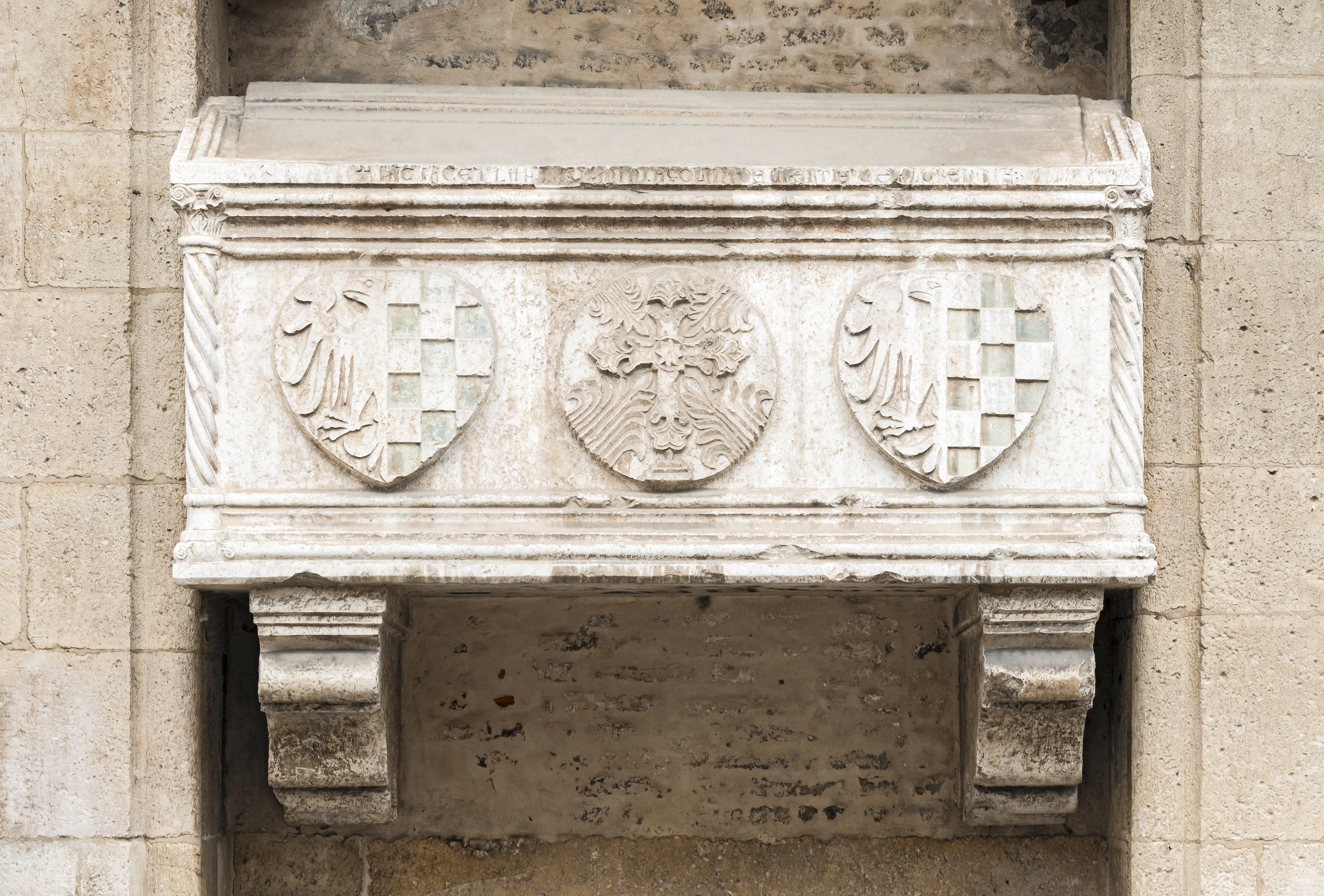 Façade of Church San Lorenzo in Vicenza - Sarcophagus of Lapo degli Uberti, 14th century